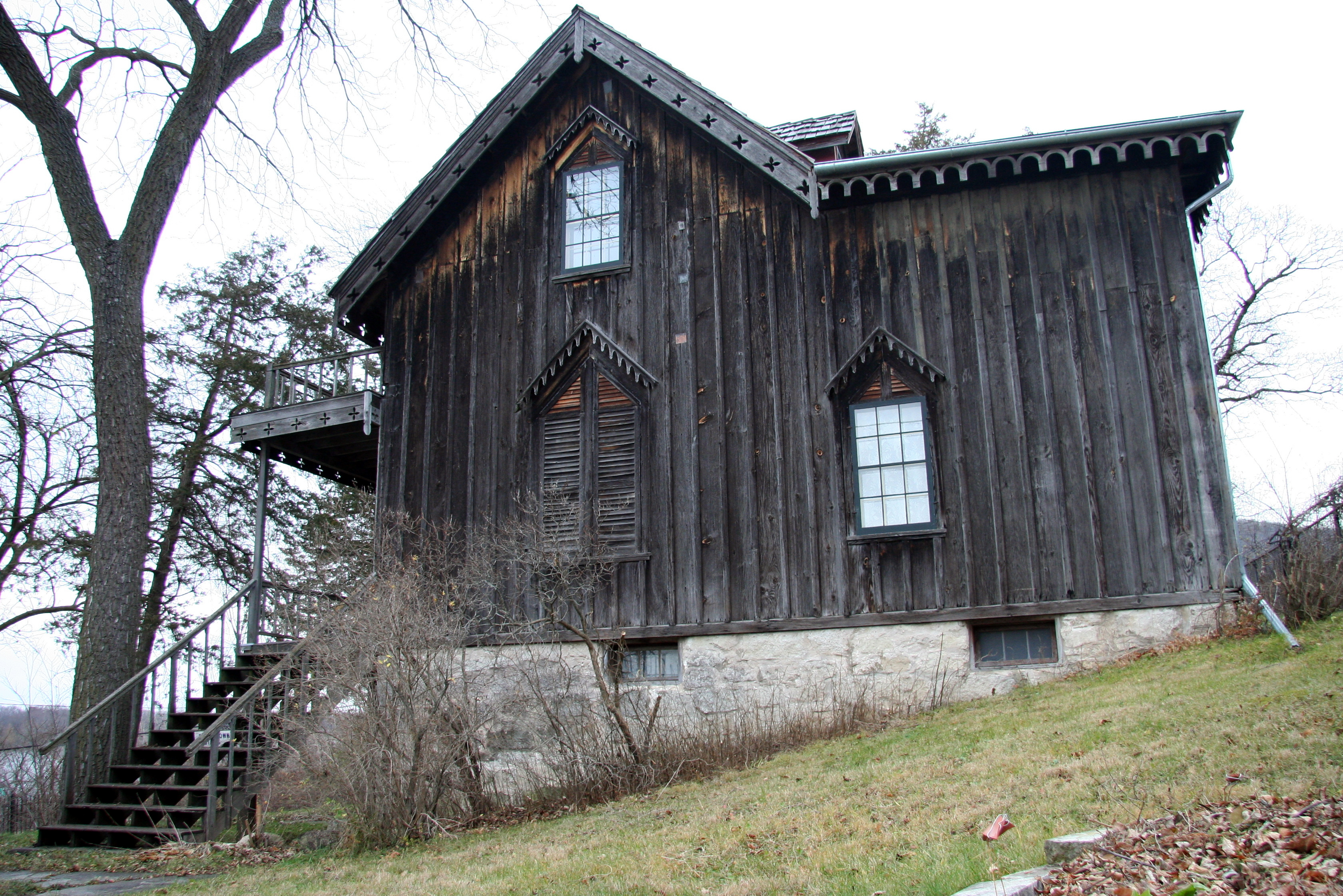 The Bunnell House with a glimpse of the Mississippi River in the background between Homer Road and U.S. Highway 61 in Homer, Minnesota